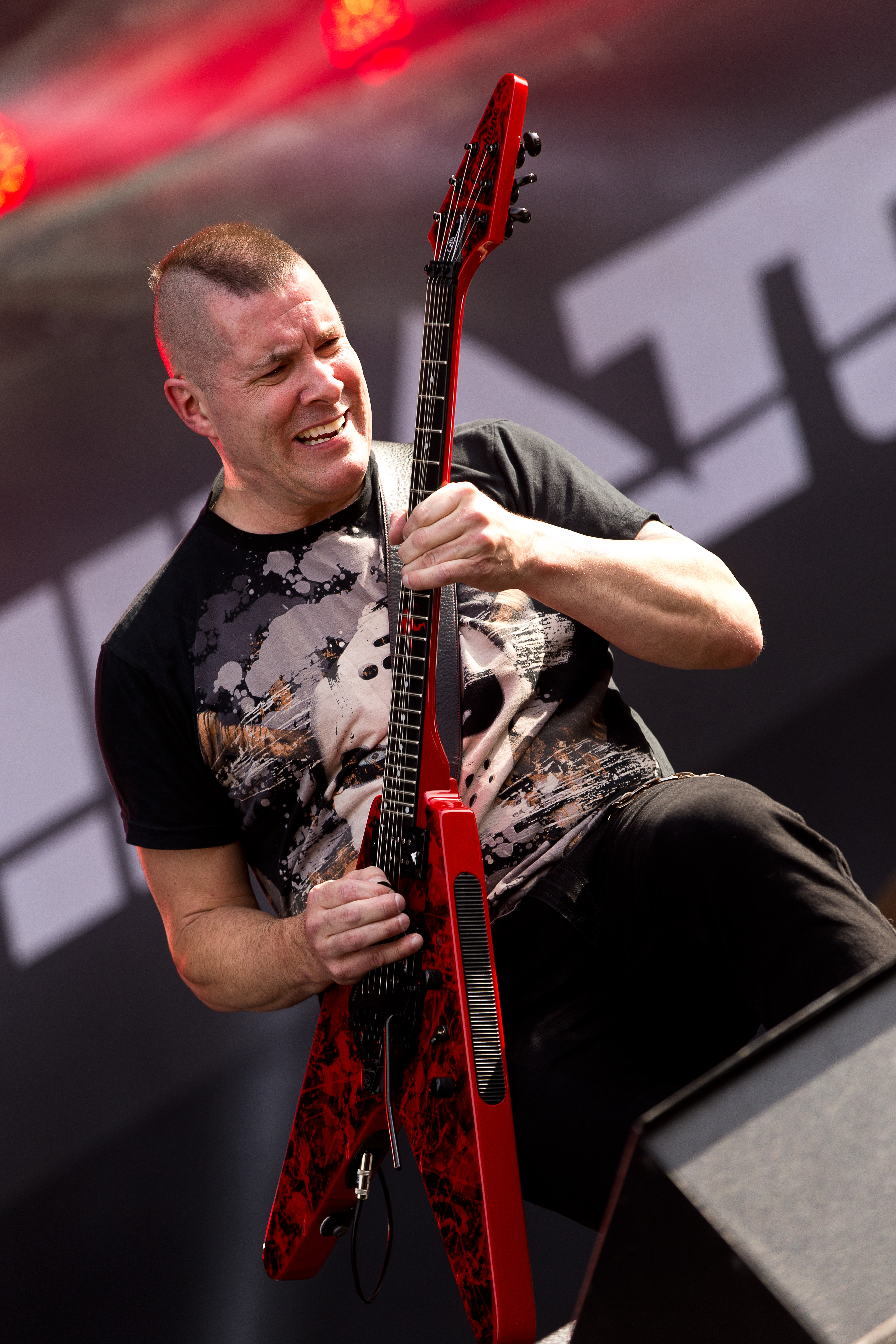 The Canadian thrash metal band Annihilator at the Rockharz Open Air 2016 in Ballenstedt/Germany.